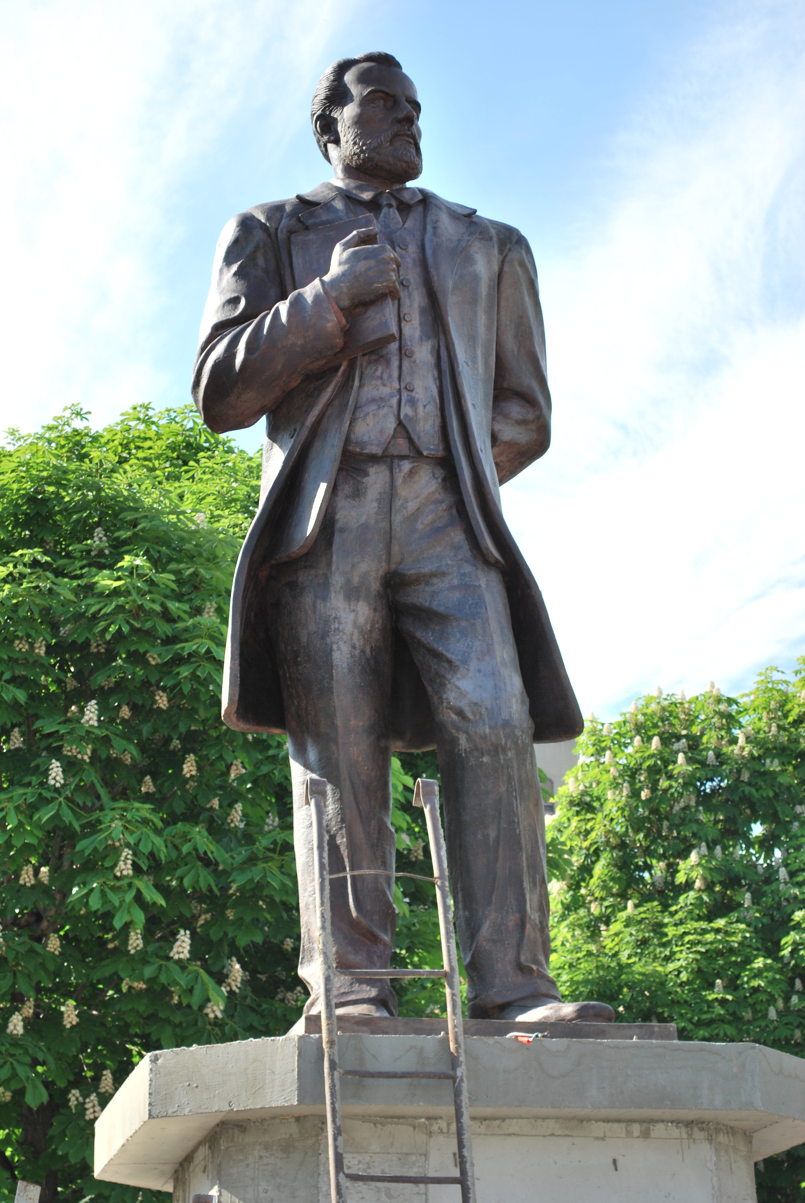 Monument of Dimitrija Čupovski in Skopje, Macedonia